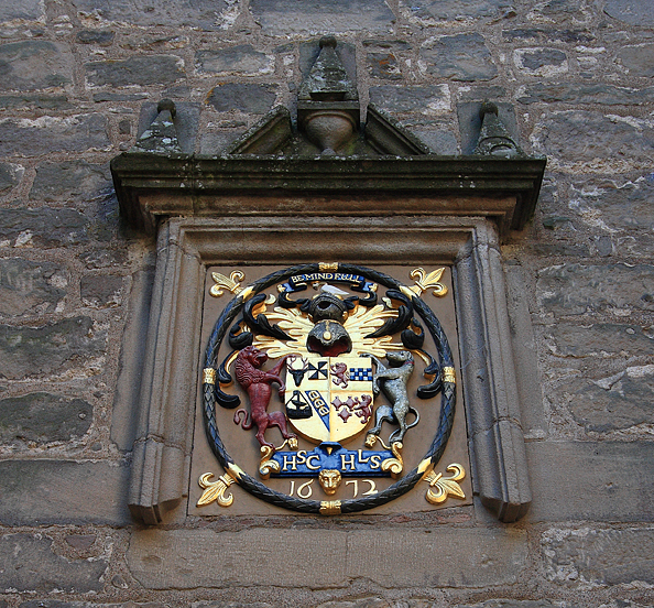 Cawdor Castle Heraldic Panel This carved stone panel over the entrance to the stair block in the north courtyard, bears the date 1672 and the initials of Sir Hugh Campbell and his wife Lady Henrietta Stewart. The family motto 'Be Mindfull' is at the top.